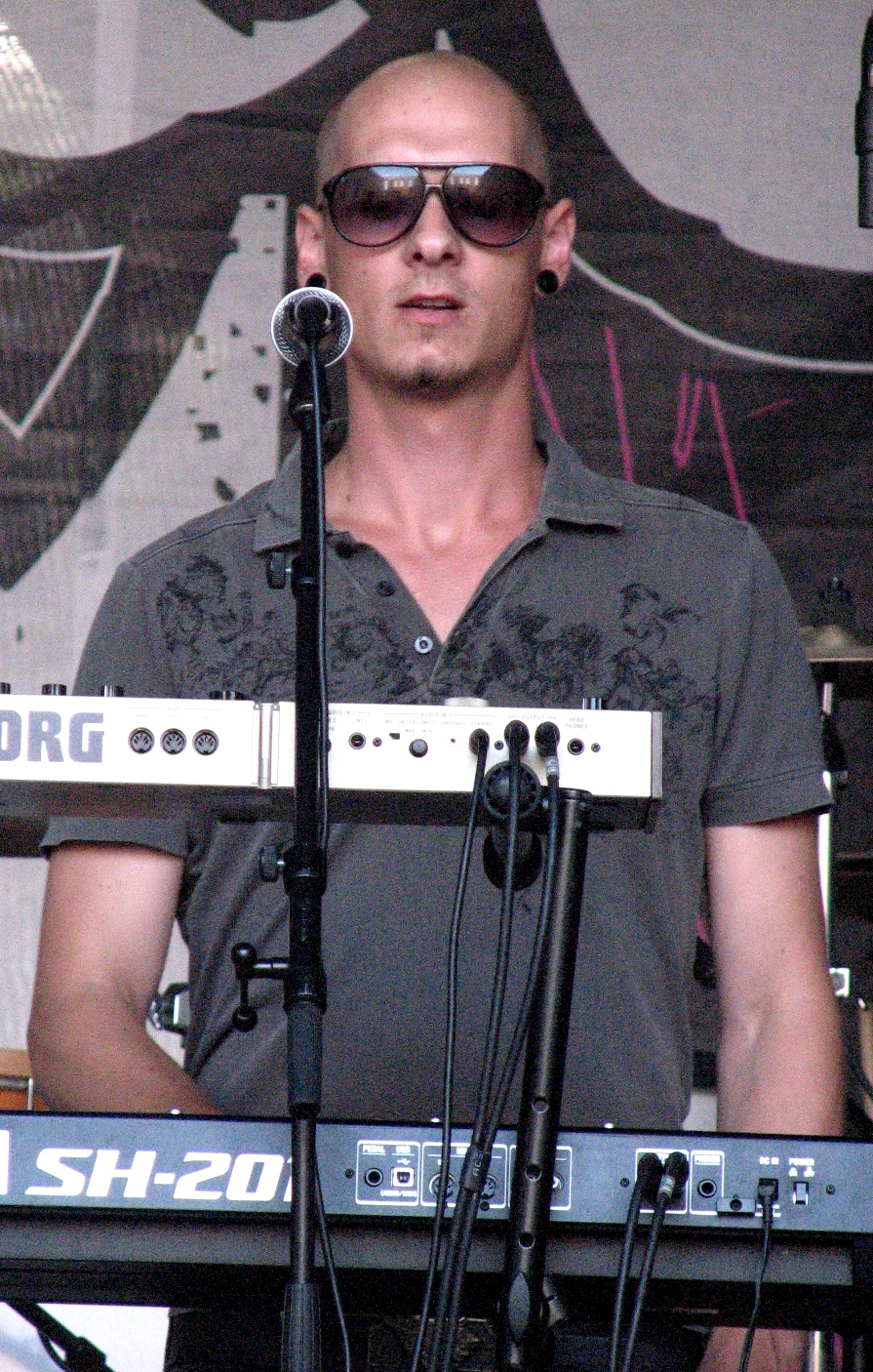 Rivo Kingi performing in SunFest 2010 in ruins of Pirita monastery